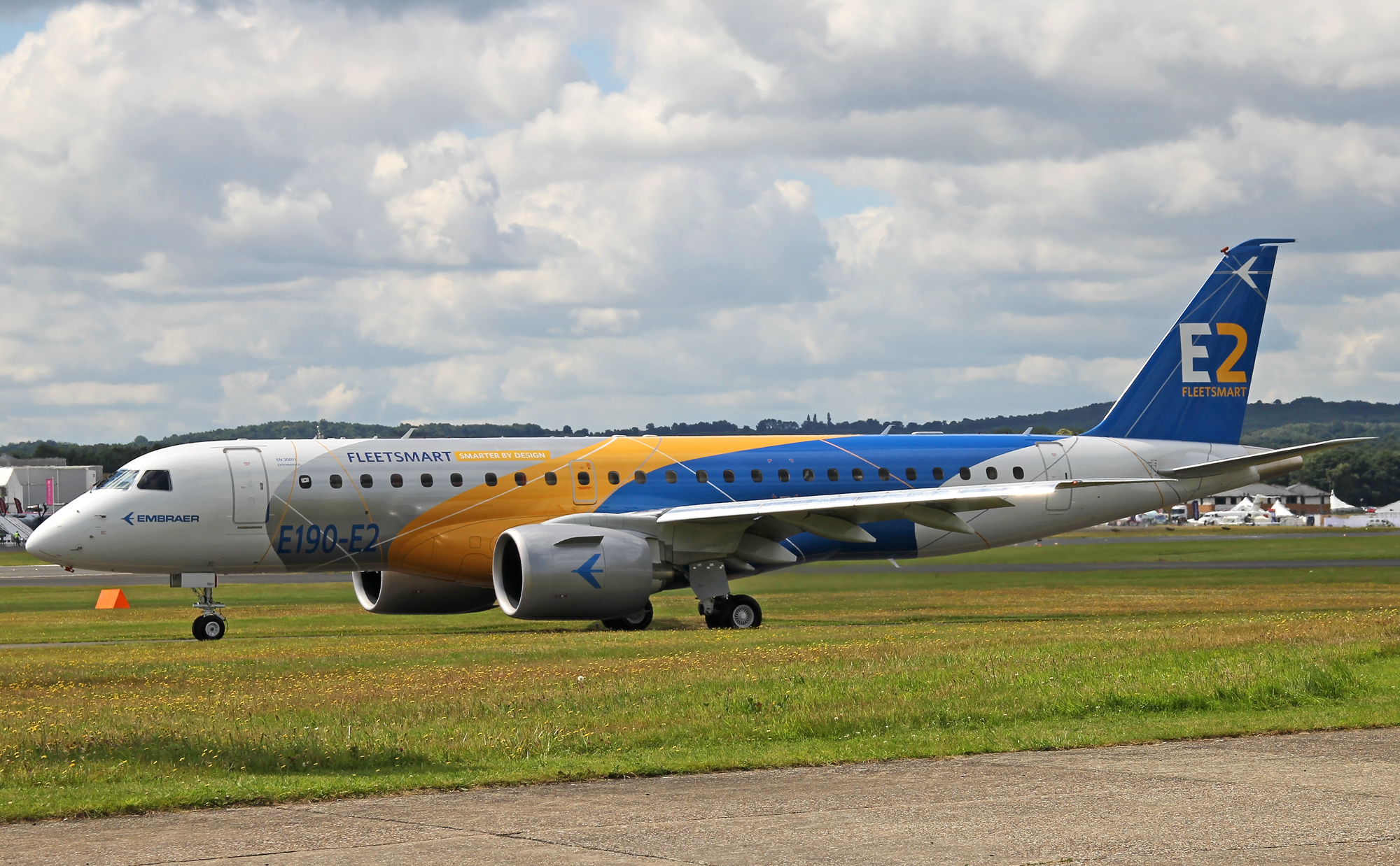 FAB 14/07/16 Taxiing out to depart after being on display for the first few days of the airshow.